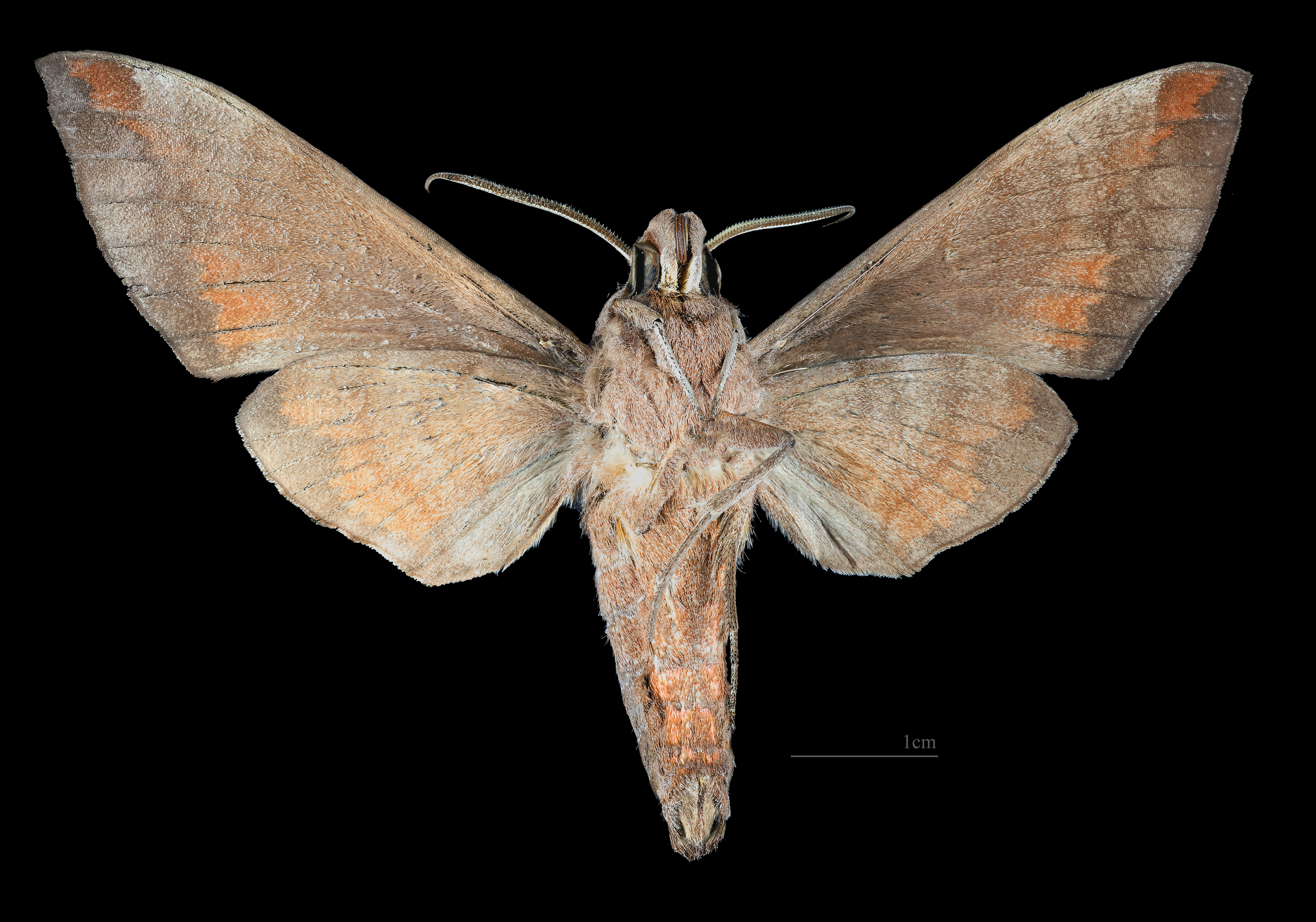 Acosmeryx formosana - △ Ventral side Collection of the Mathematician Laurent Schwartz